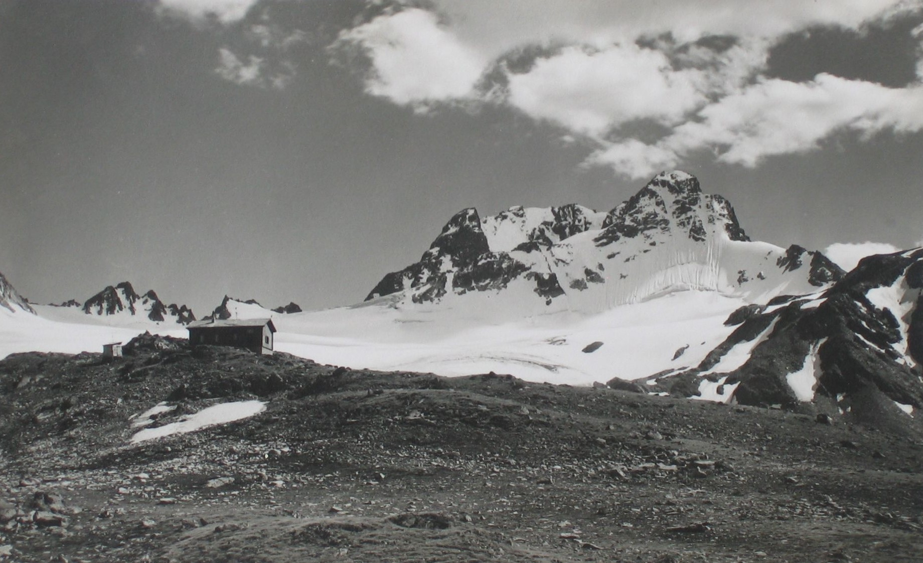 Keschhütte GR, Schweiz, um 1936